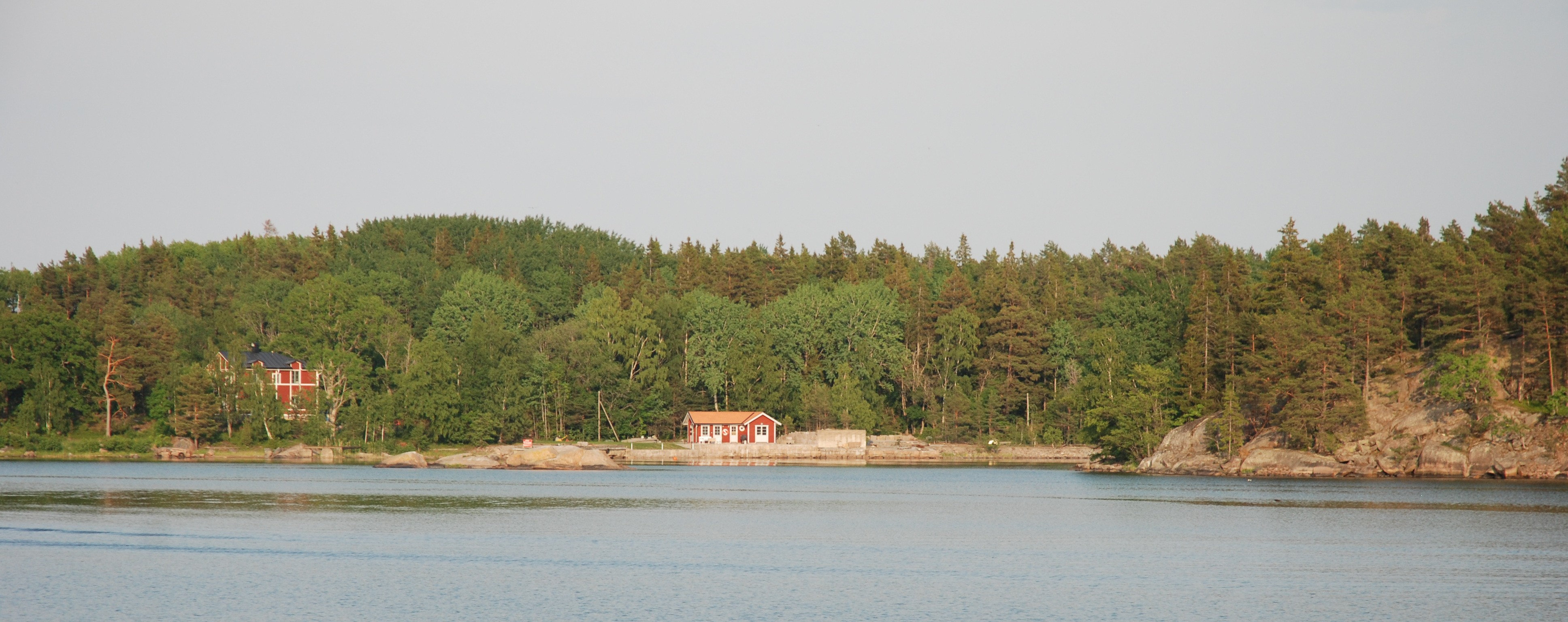 Vätöberg, from Karlsängen